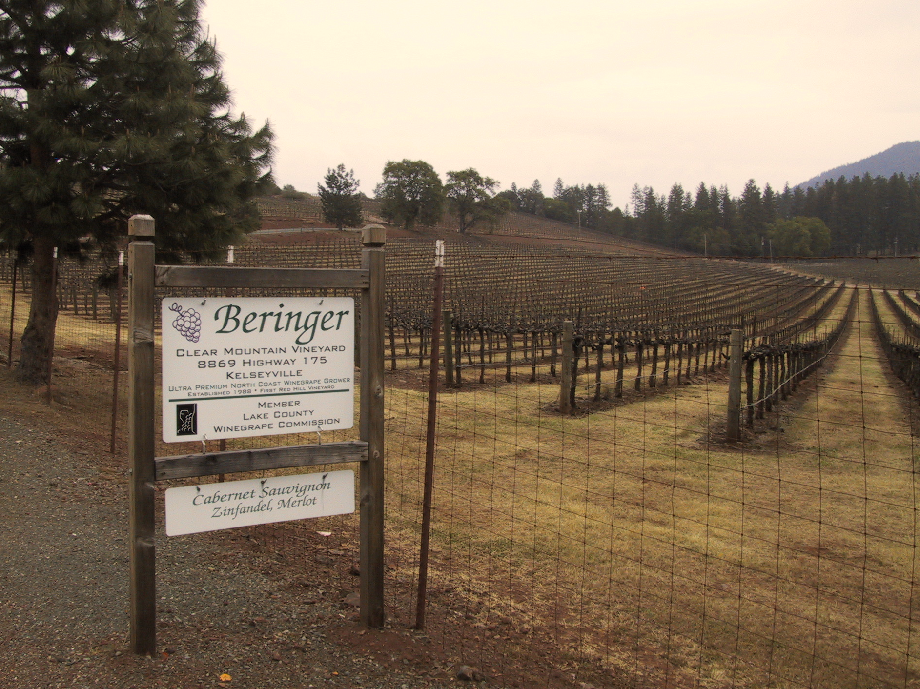 A Beringer vineyard in Kelseyville, in the Red Hills Lake County AVA.